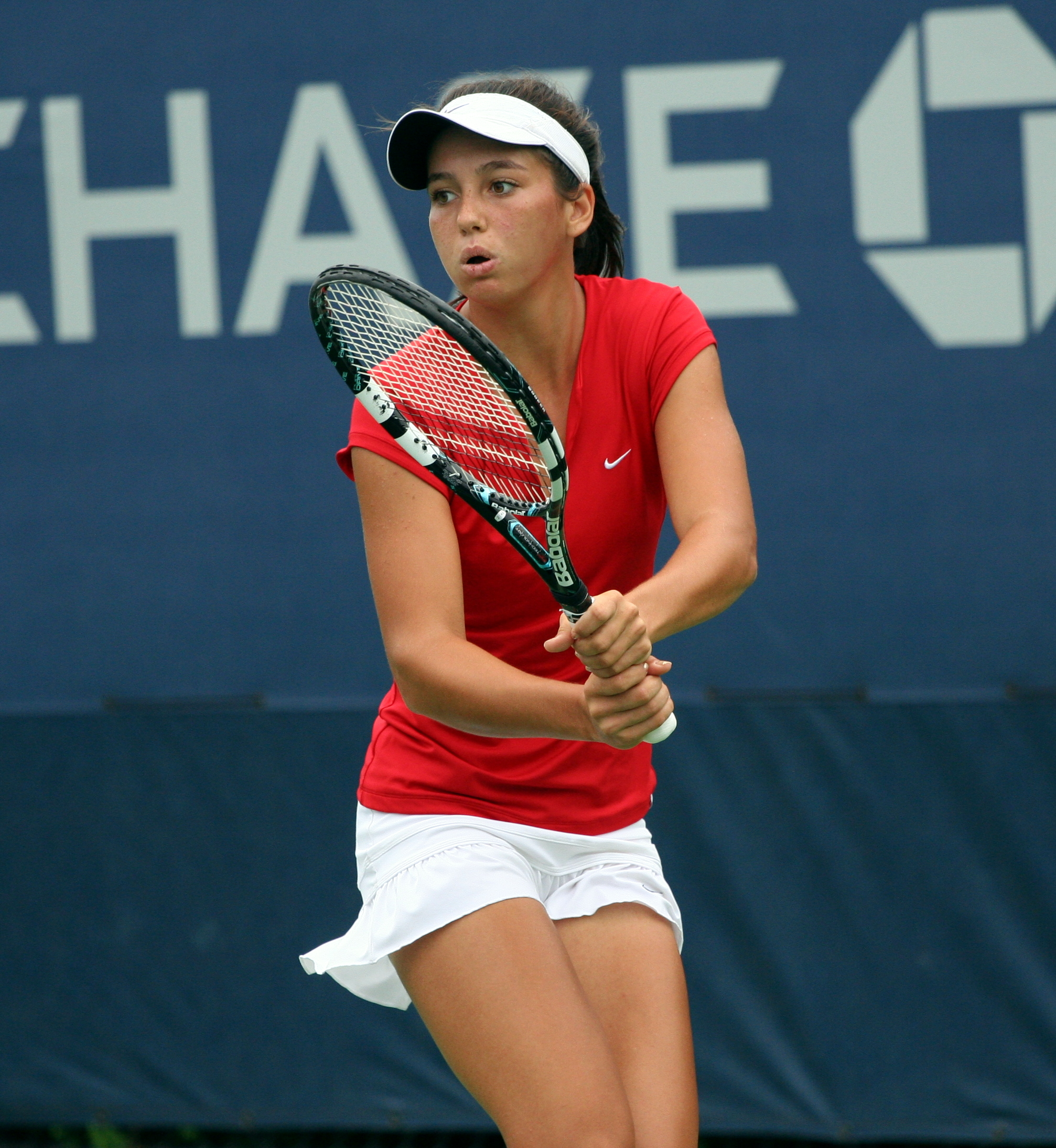 U.S. Open Juniors Thursday, Sept. 6, 2012